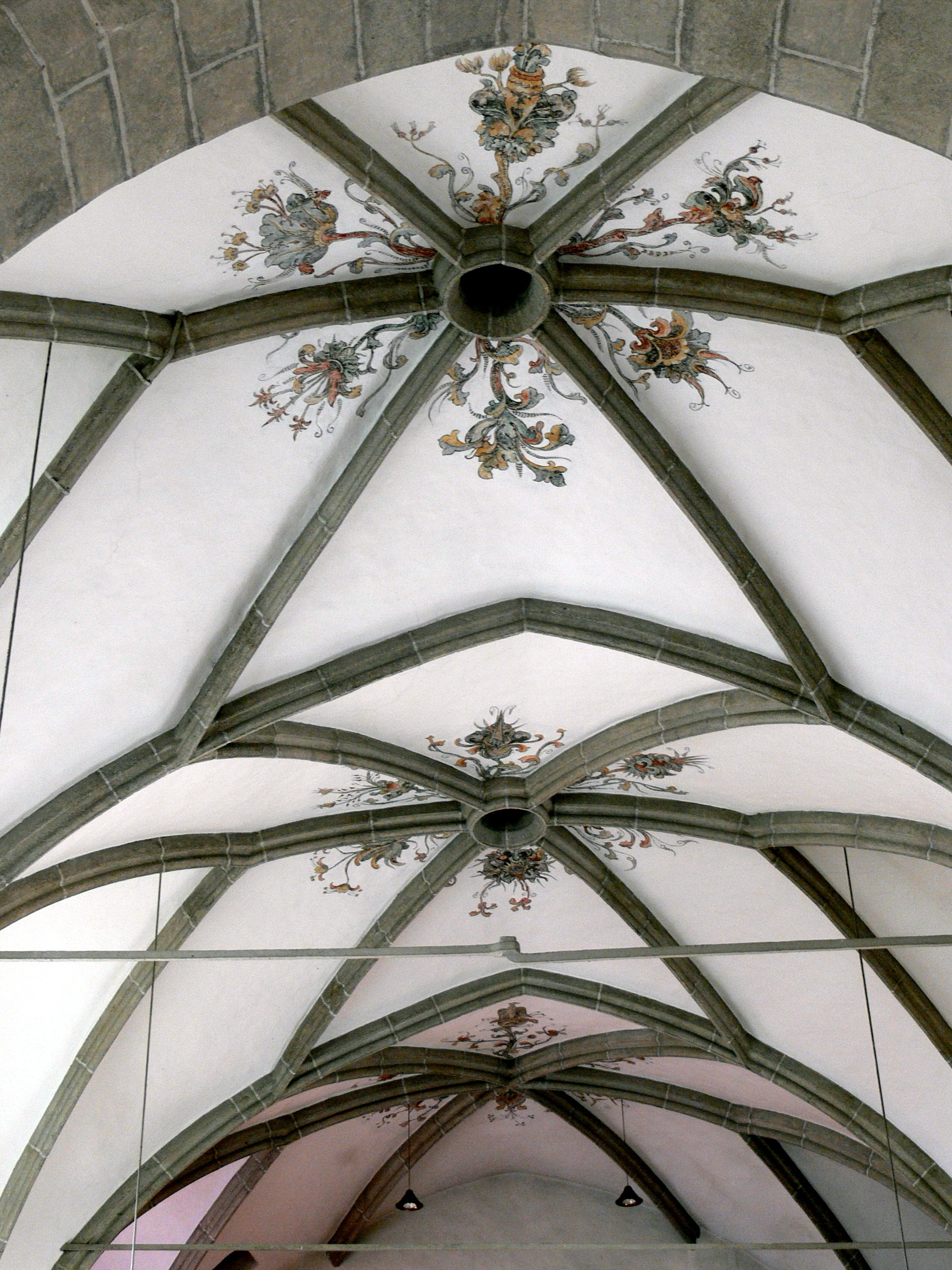 Parish church in Neufelden. Gothic vault in the nave.